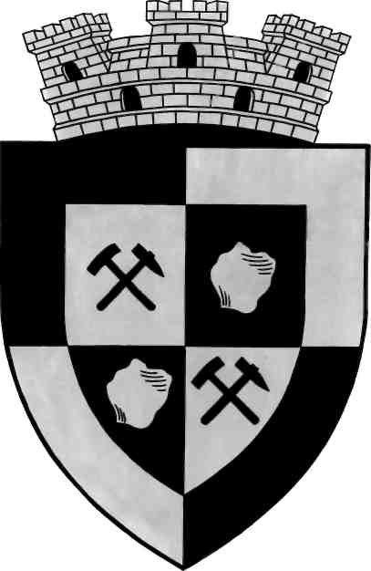 Coat of arms of Ocna Sibiului, Sibiu County, Romania.